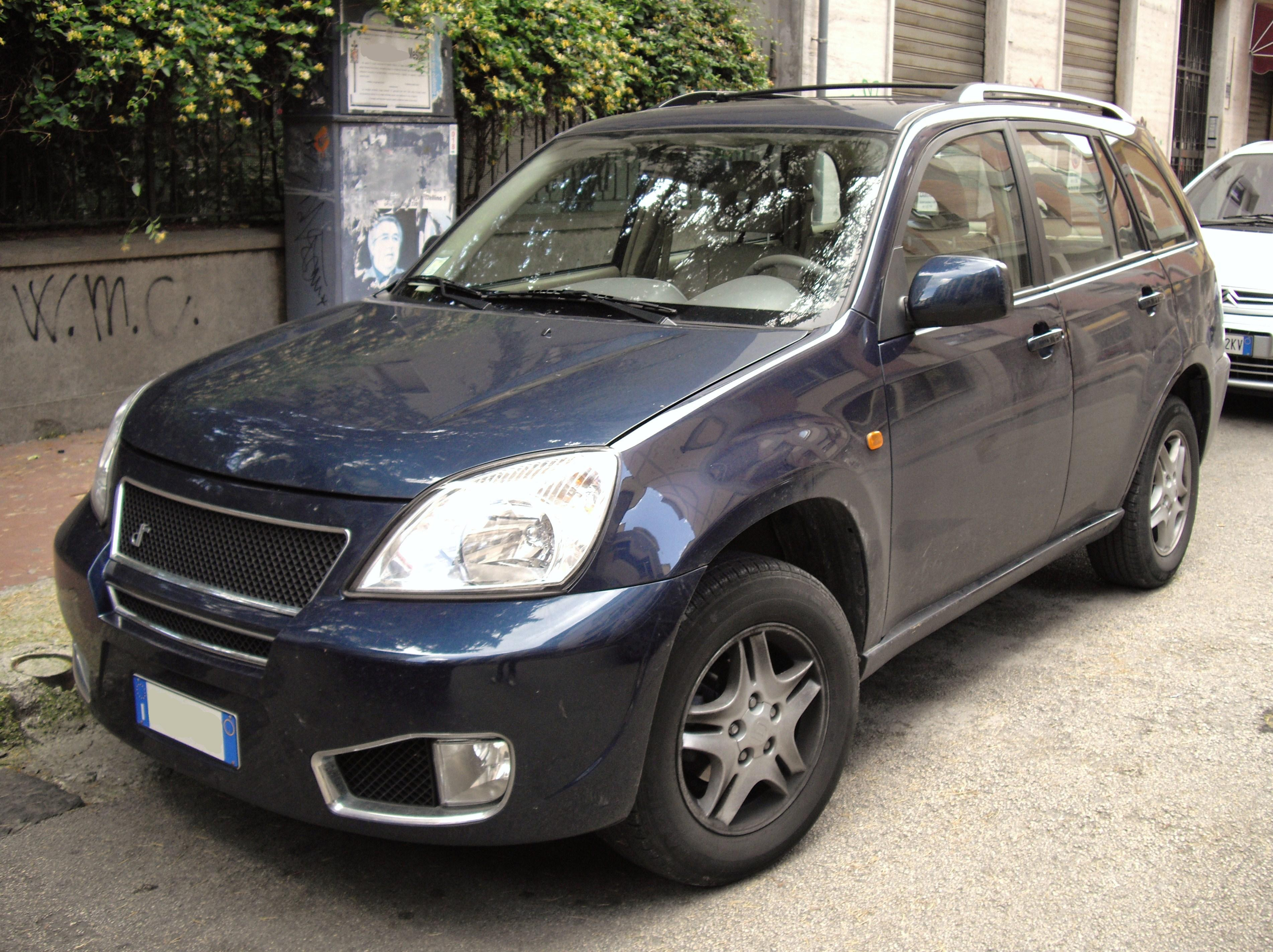 Dr5 EcoPower